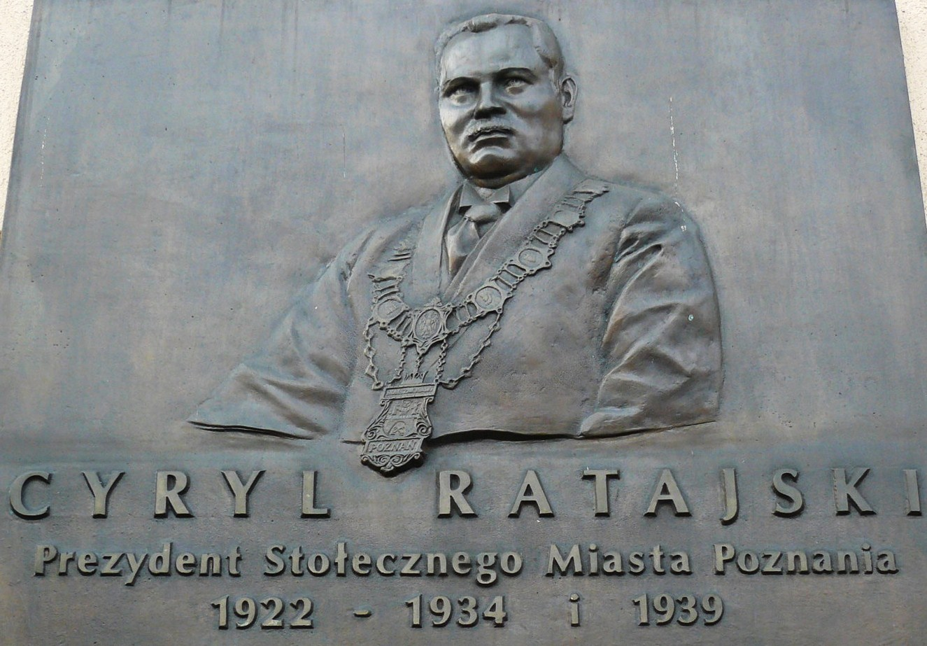 Table of Cyryl Ratajski - Poznan, C.Ratajski Place.